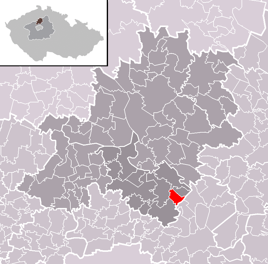 Location of Ovčáry municipality within Mělník District and administrative area of Neratovice as a Municipality with Extended Competence.